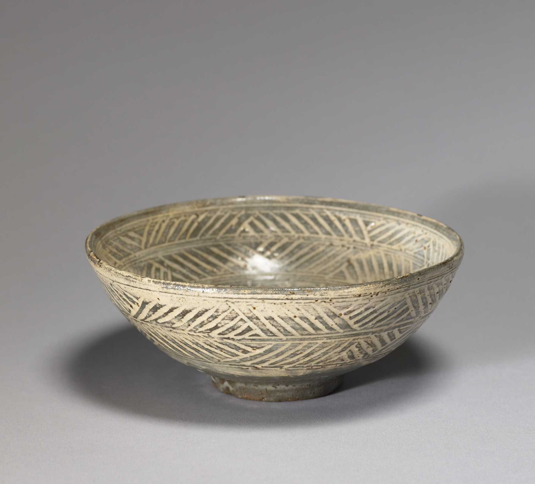 This tea bowl is of the "hori-mishima" type. It was made to order for the Japanese market.